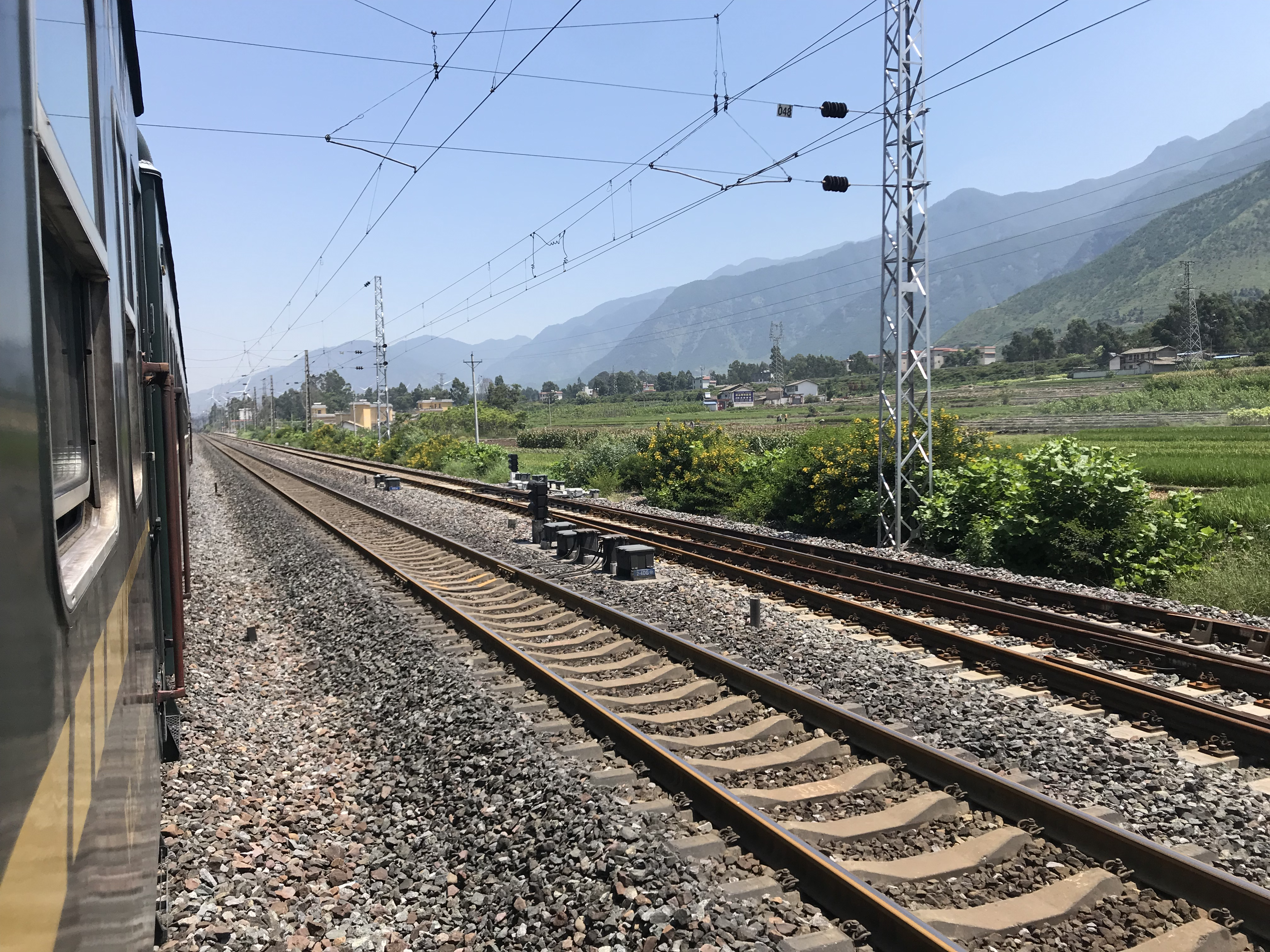 201908 Tracks at Mali Station